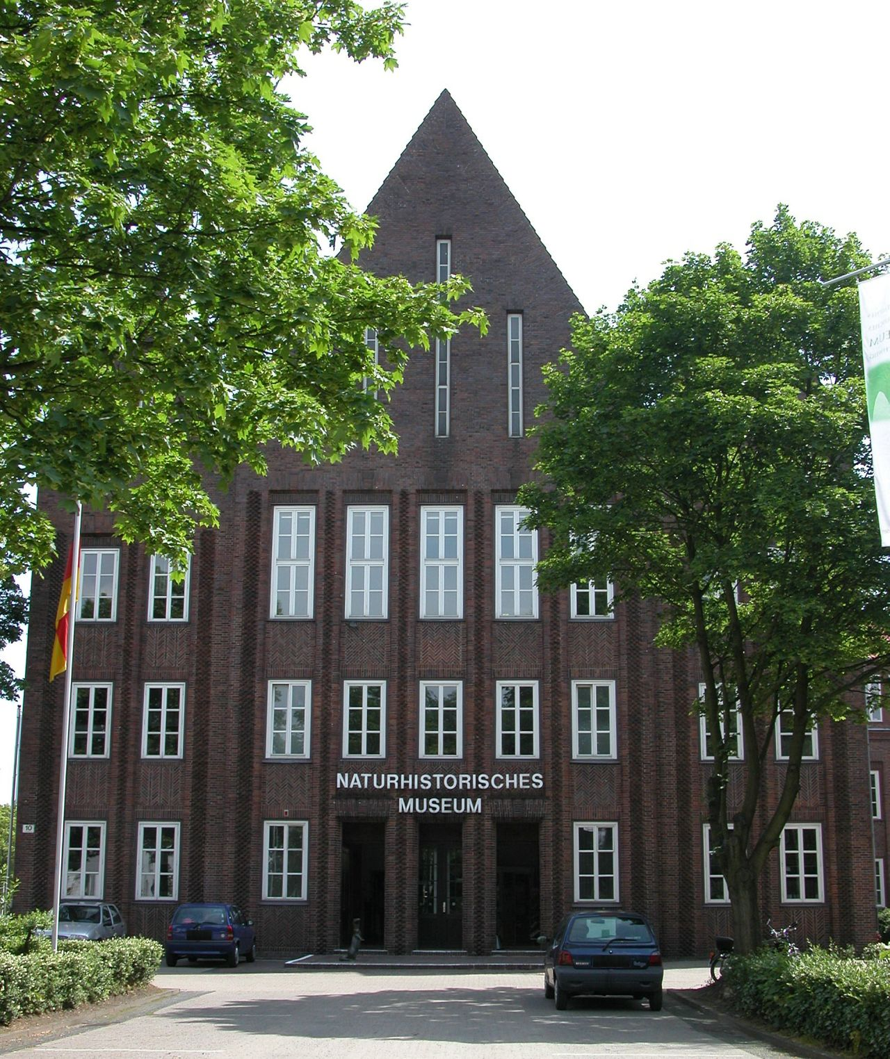 Brunswick, Germany: Entrance of the Museum of Natural History.